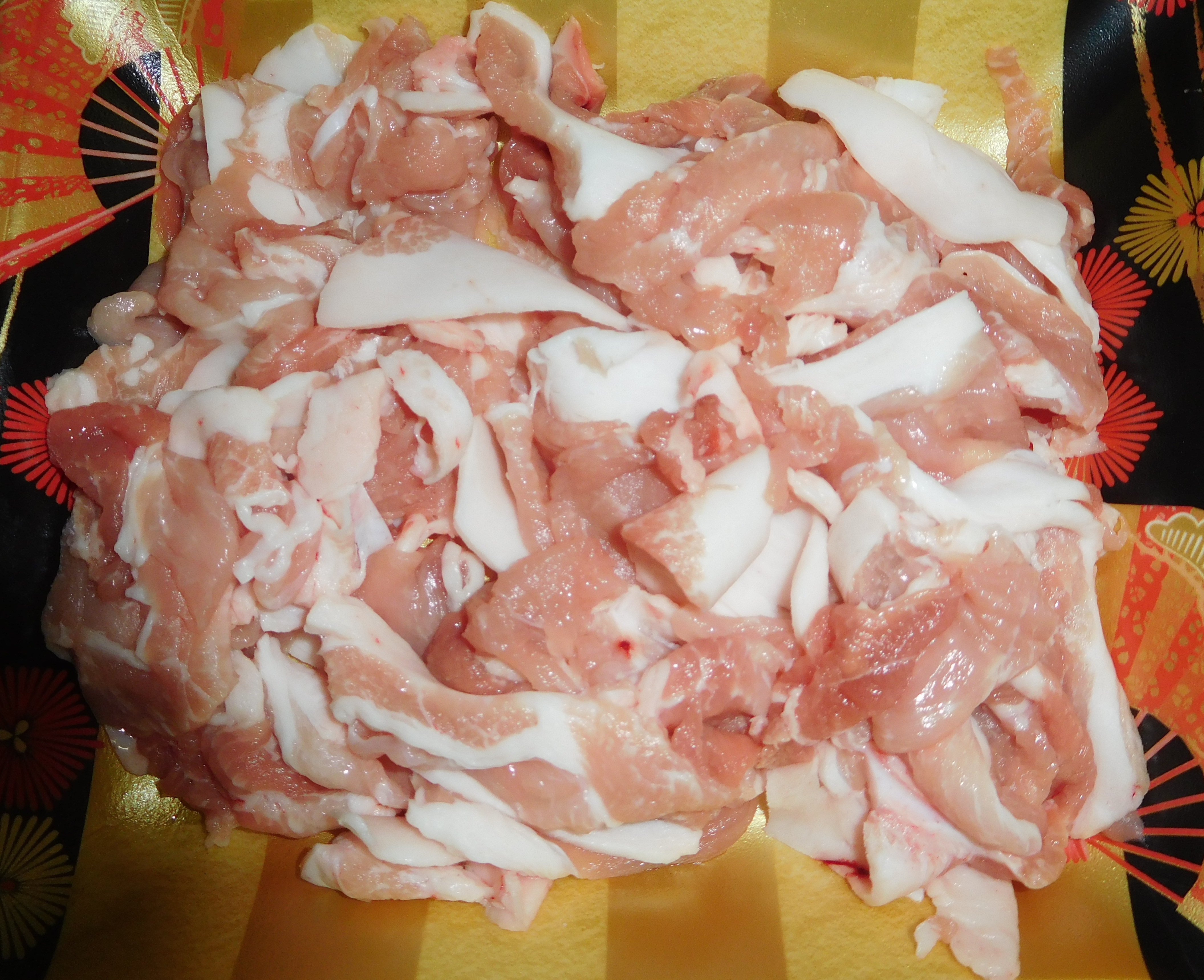 Rose pork, a brand pork in Ibaraki prefecture, Japan.